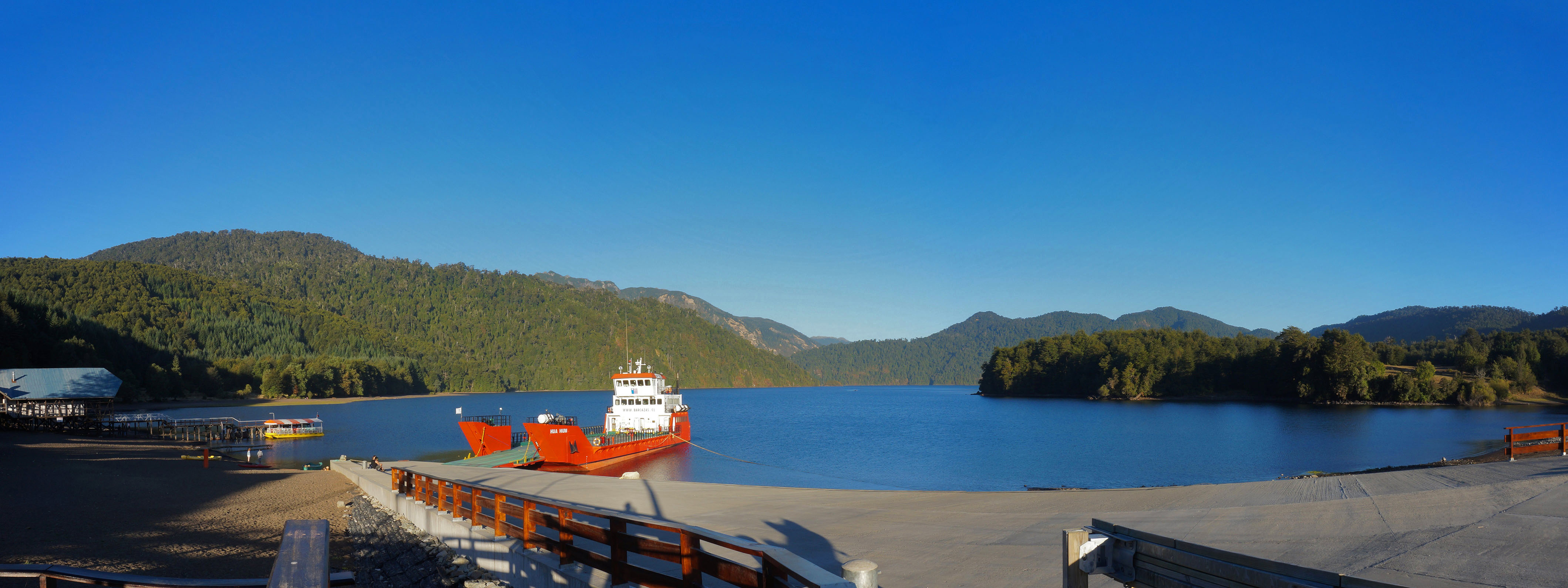 Pirihueico Lake at Puerto Fuy, Región de los Ríos, Chile